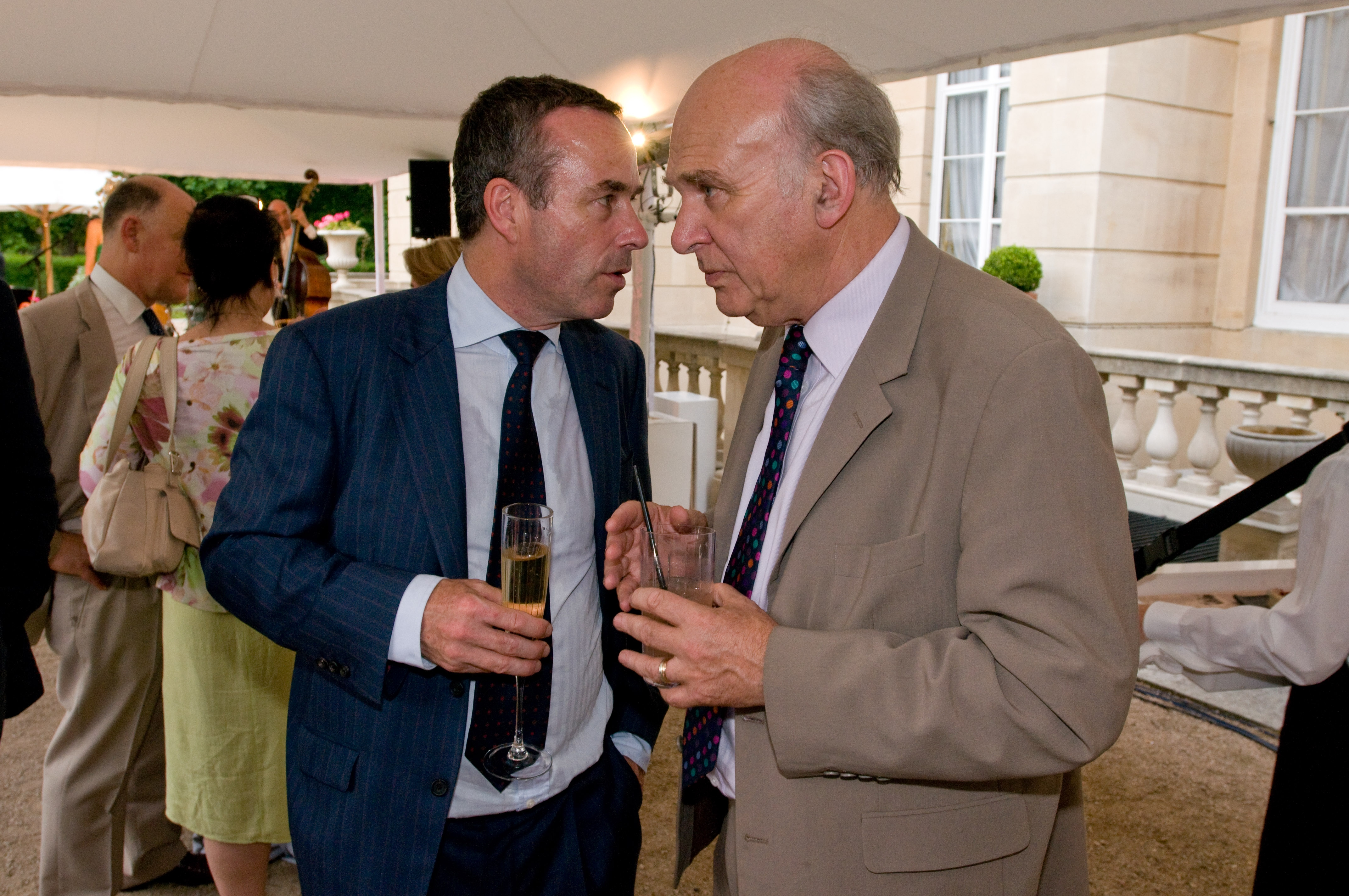 Lionel Barber, Editor, FT and Rt Hon Dr Vince Cable, Business Secretary